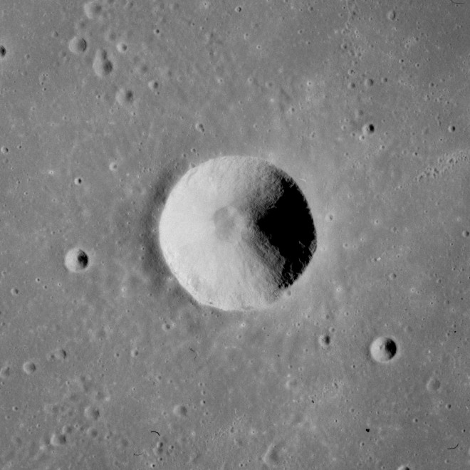 Kundt, on the moon. Sun elevation 30 deg., spacecraft altitude 124 km.